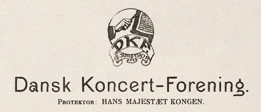 Dansk Koncert-Forening (1901—1933)